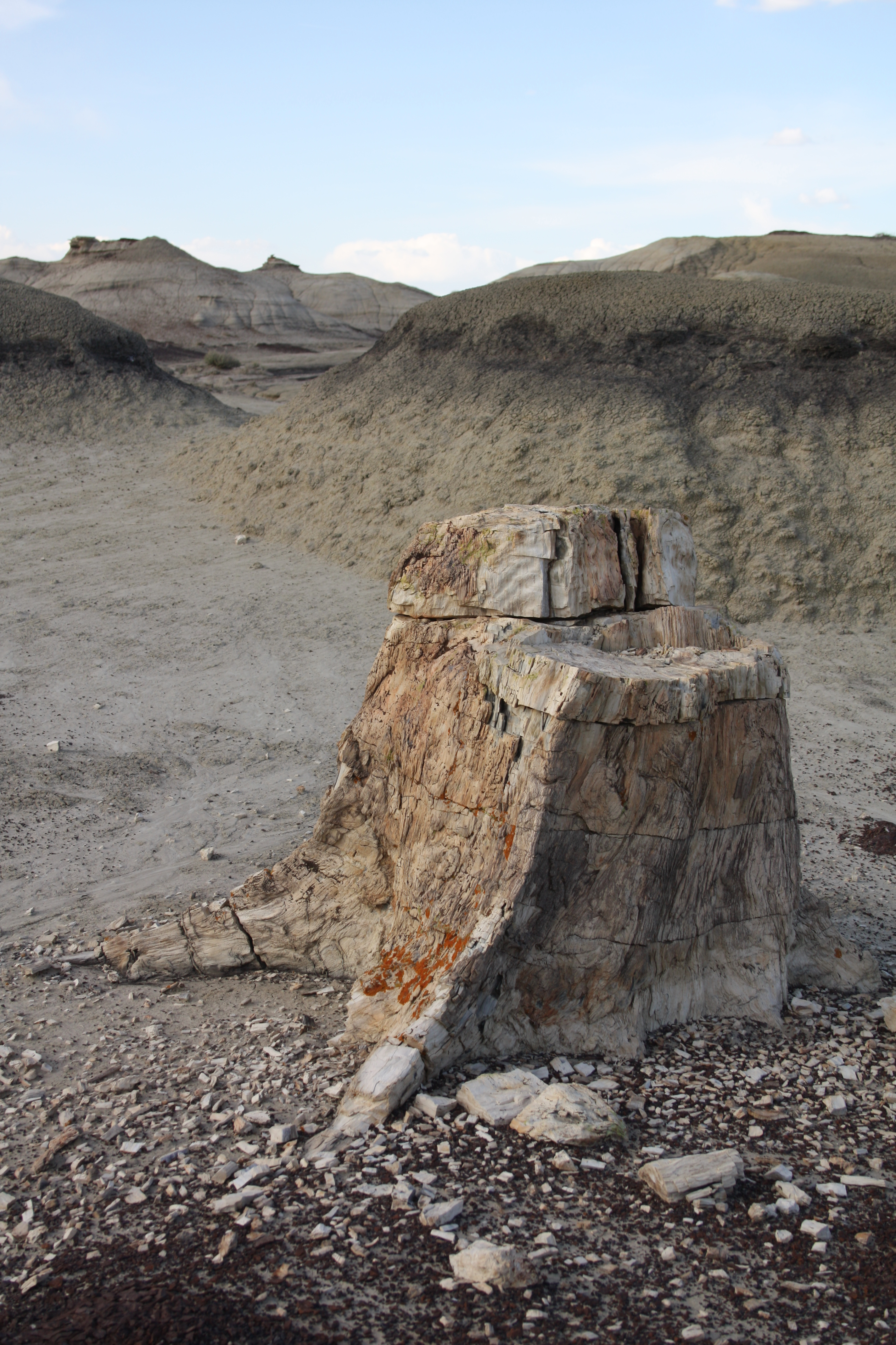 A fossil tree from the Coal Creek region, Fruitland Formation, latest Cretaceous (Late Campanian), San Juan Basin, New Mexico